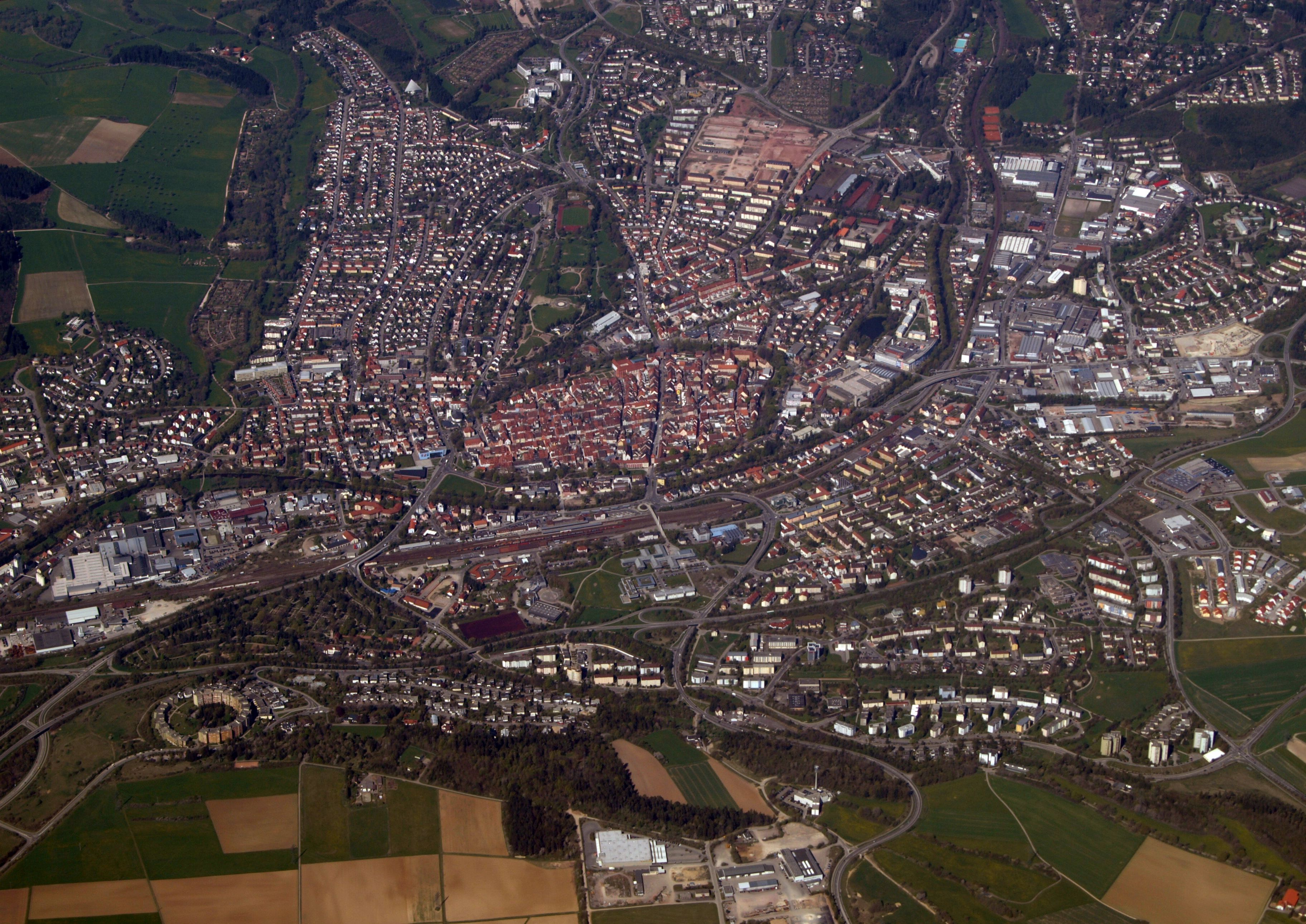 Aerial view of Villingen (part of Villingen-Schwenningen), Germany